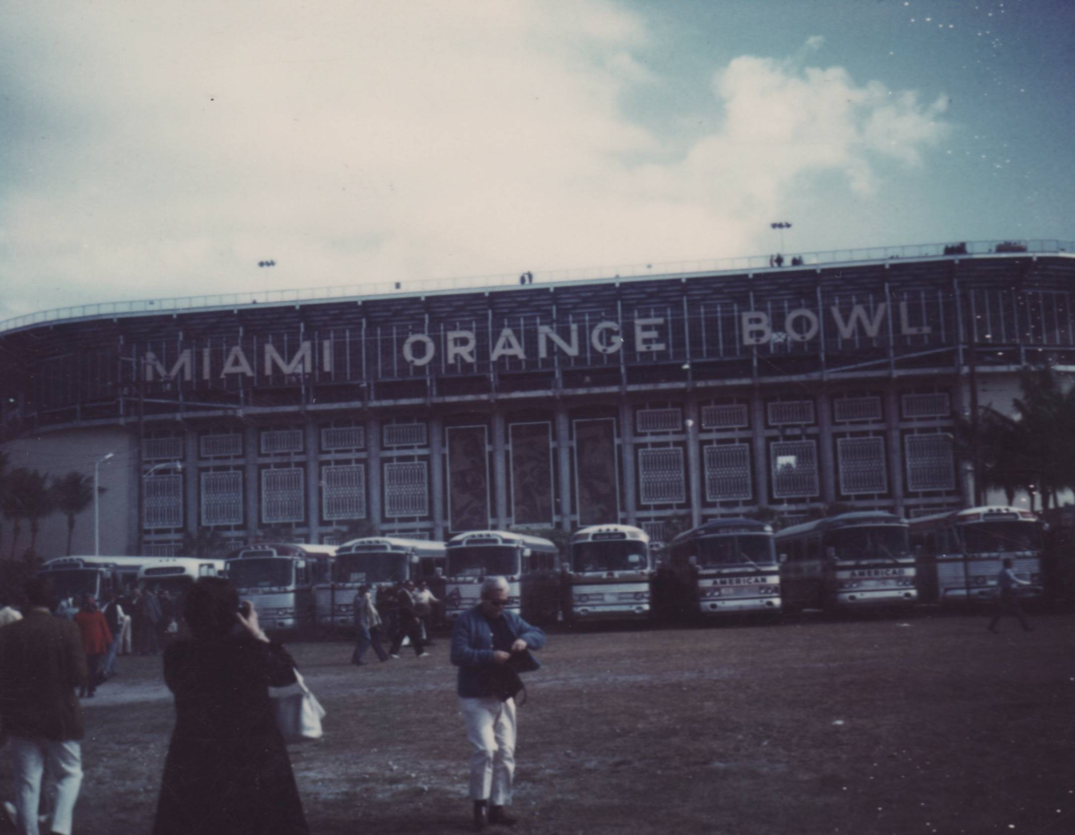 Picture of the Miami Orange Bowl Stadium on game day